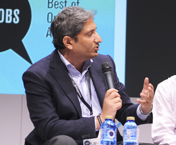 Ravish Kumar at the event of Spiegel Online